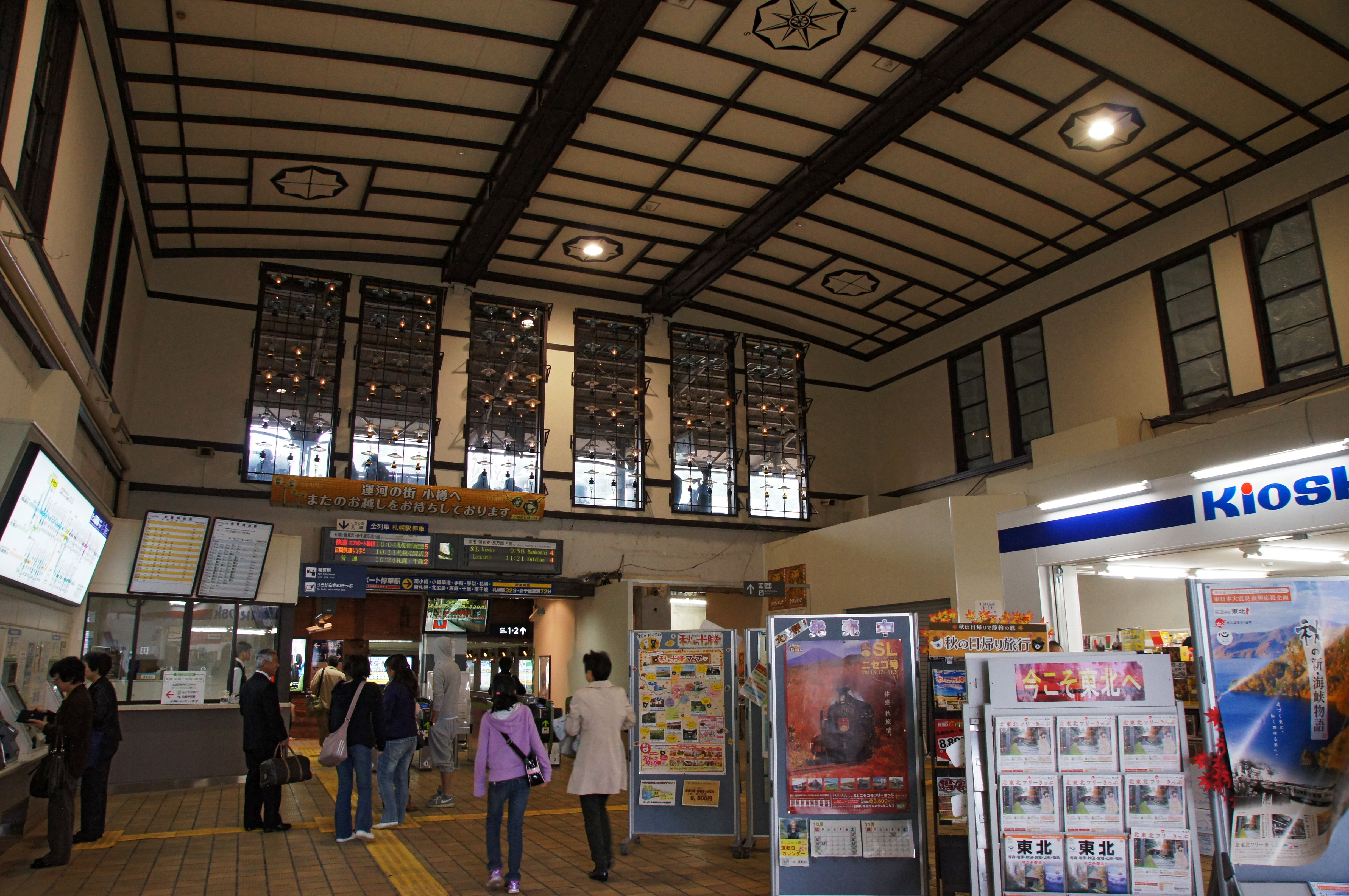 Otaru Station in Otaru, Hokkaido prefecture, Japan